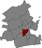 Location of Santa Oliva in Baix Penedès